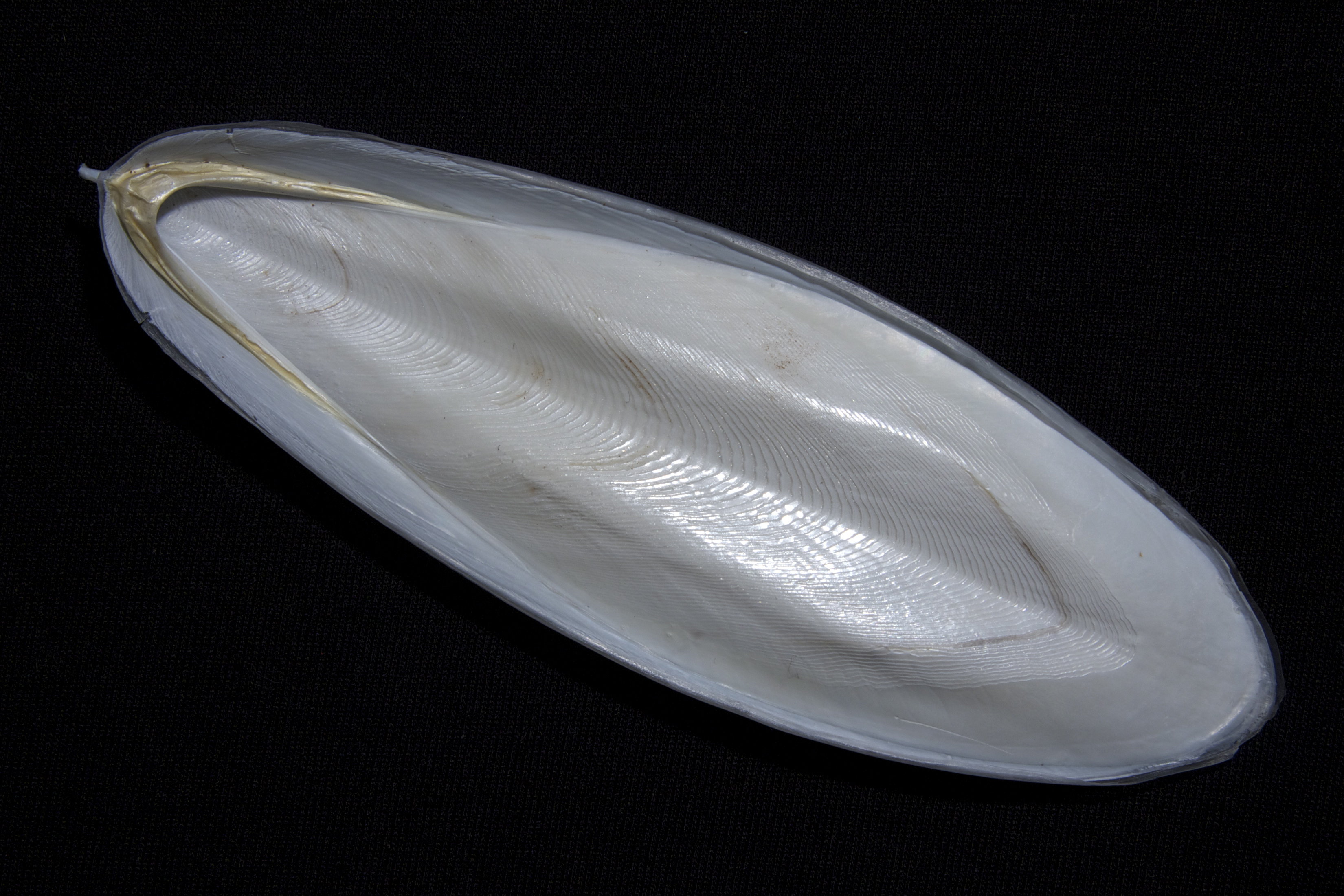 A cuttlebone of a cuttlefish (ventral). This cuttlebone may be the sepion of Kisslip cuttlefish (Sepia lycidas) because of its outline and thickened inner cone (identified by User:Kingfiser).